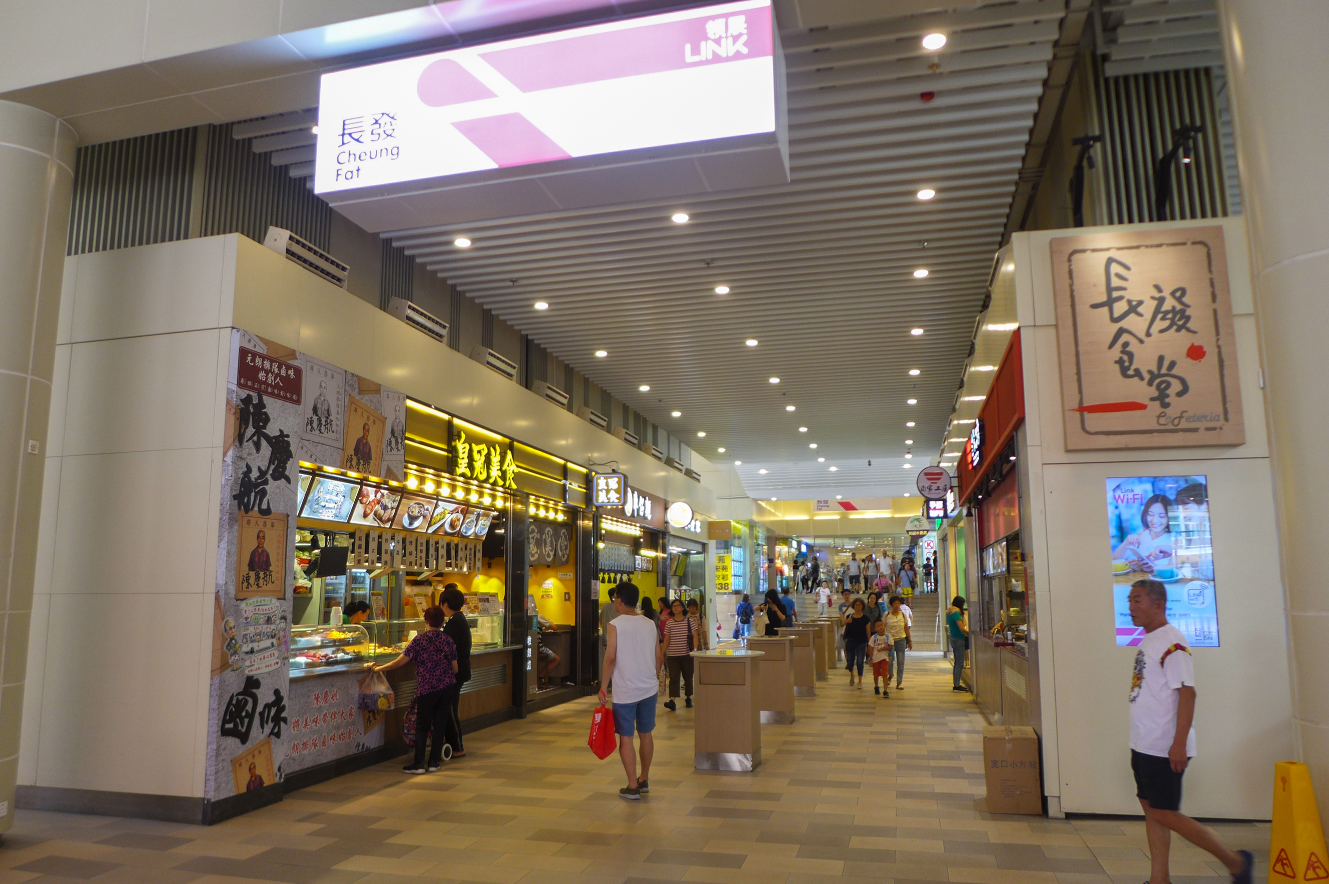 CaFeberia in Cheung Fat Shopping Centre